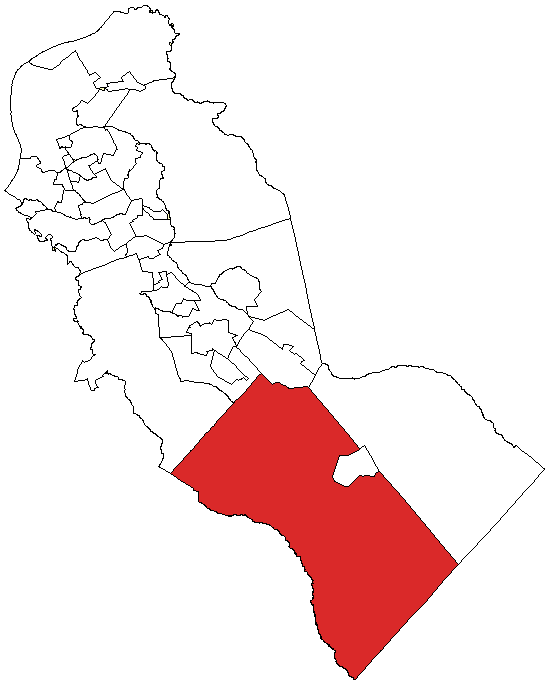 Map of Camden County highlighting Winslow